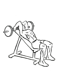 an exercise of triceps